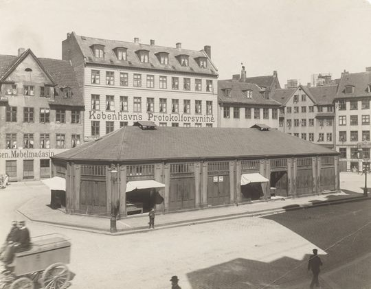 The market Building with room for 20 butchers which was located on Grøbrødretorv in Copenhagen, Denmark from 1852 until 1901.